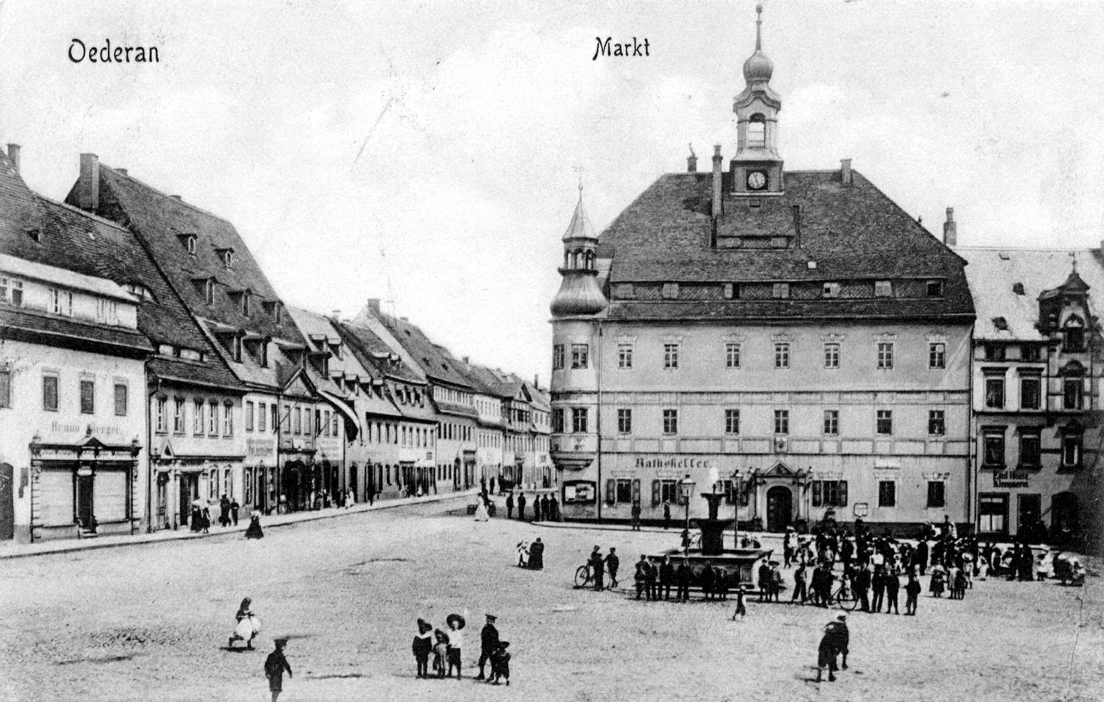 This image shows the market place and the townhall of Oederan in Saxony.